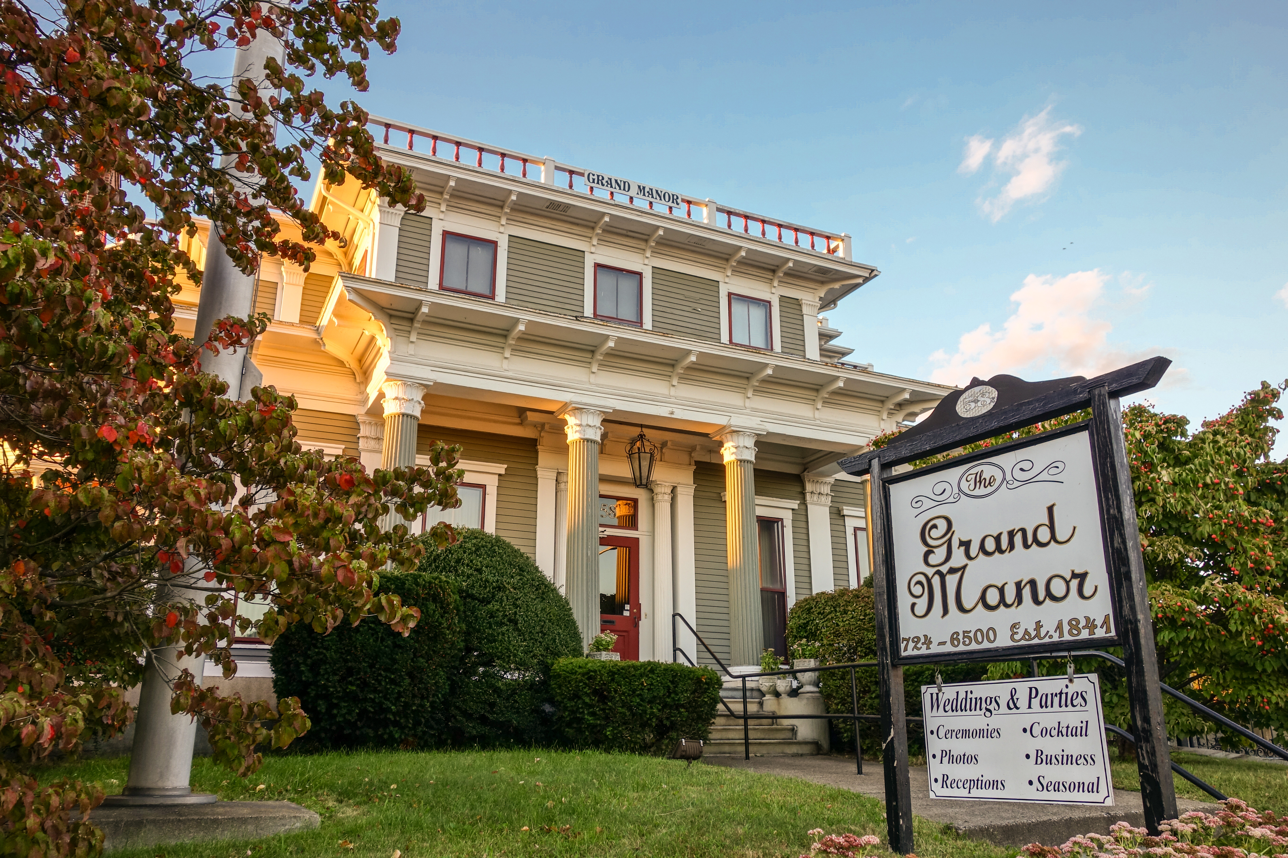 Pitcher-Goff House with sign